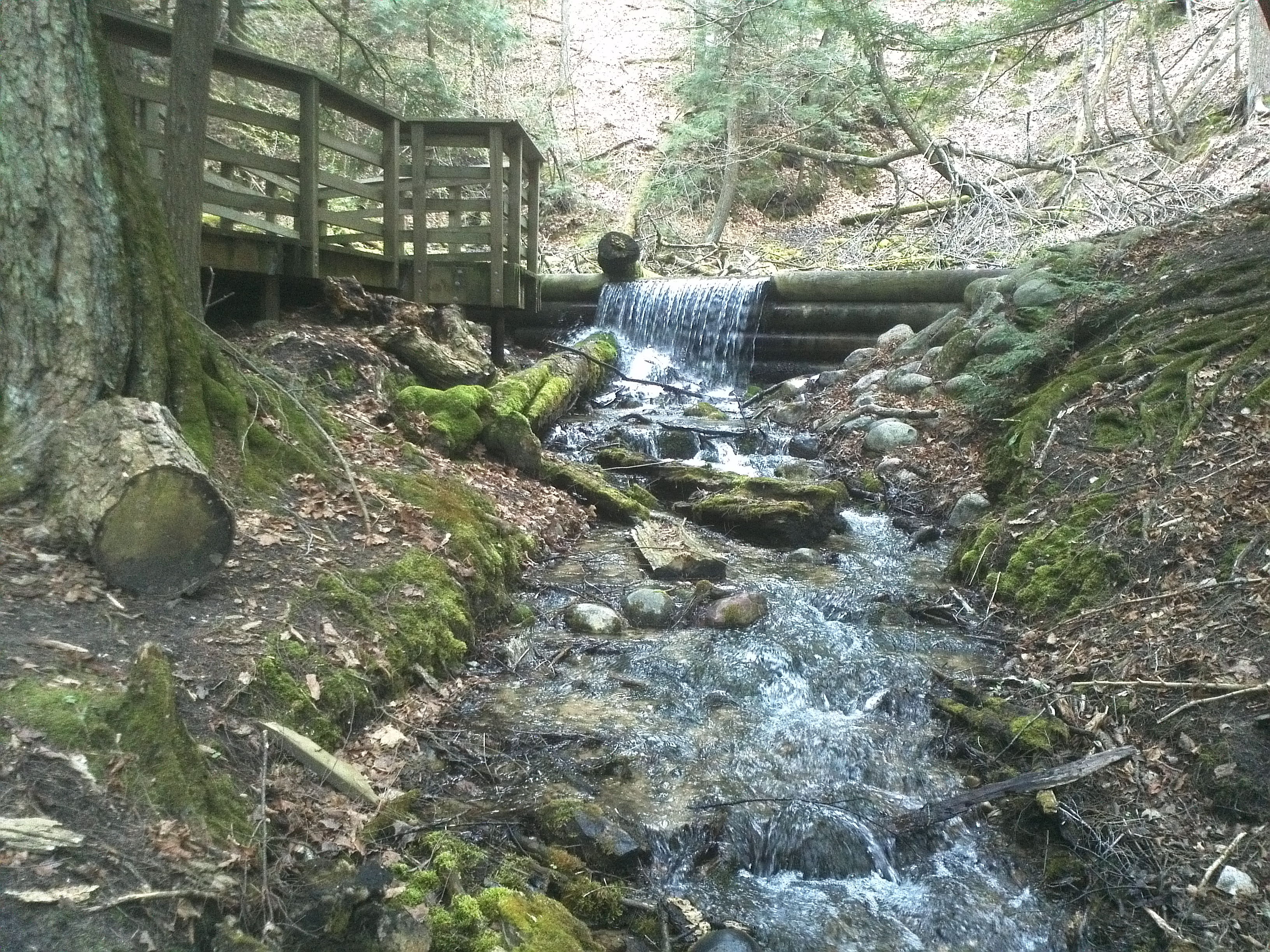 One of the springs at Iargo Springs along the AuSable River in Oscoda, MI